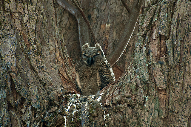 A juvenile Great Horned Owl in a nest in Extrema, Minas Gerais, Brazil.